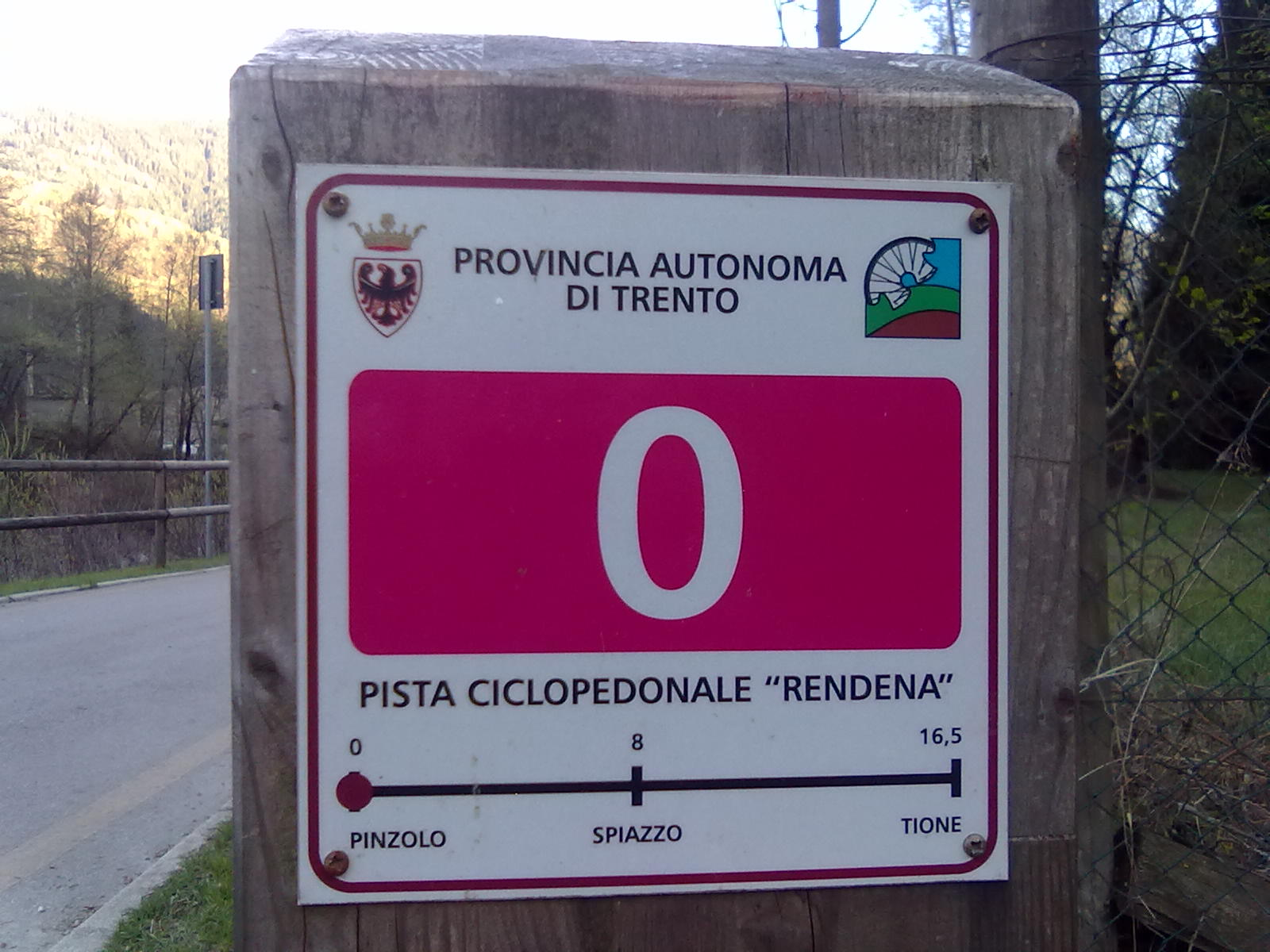 Sign of distance placed at the start of cycling route Rendena in Pinzolo